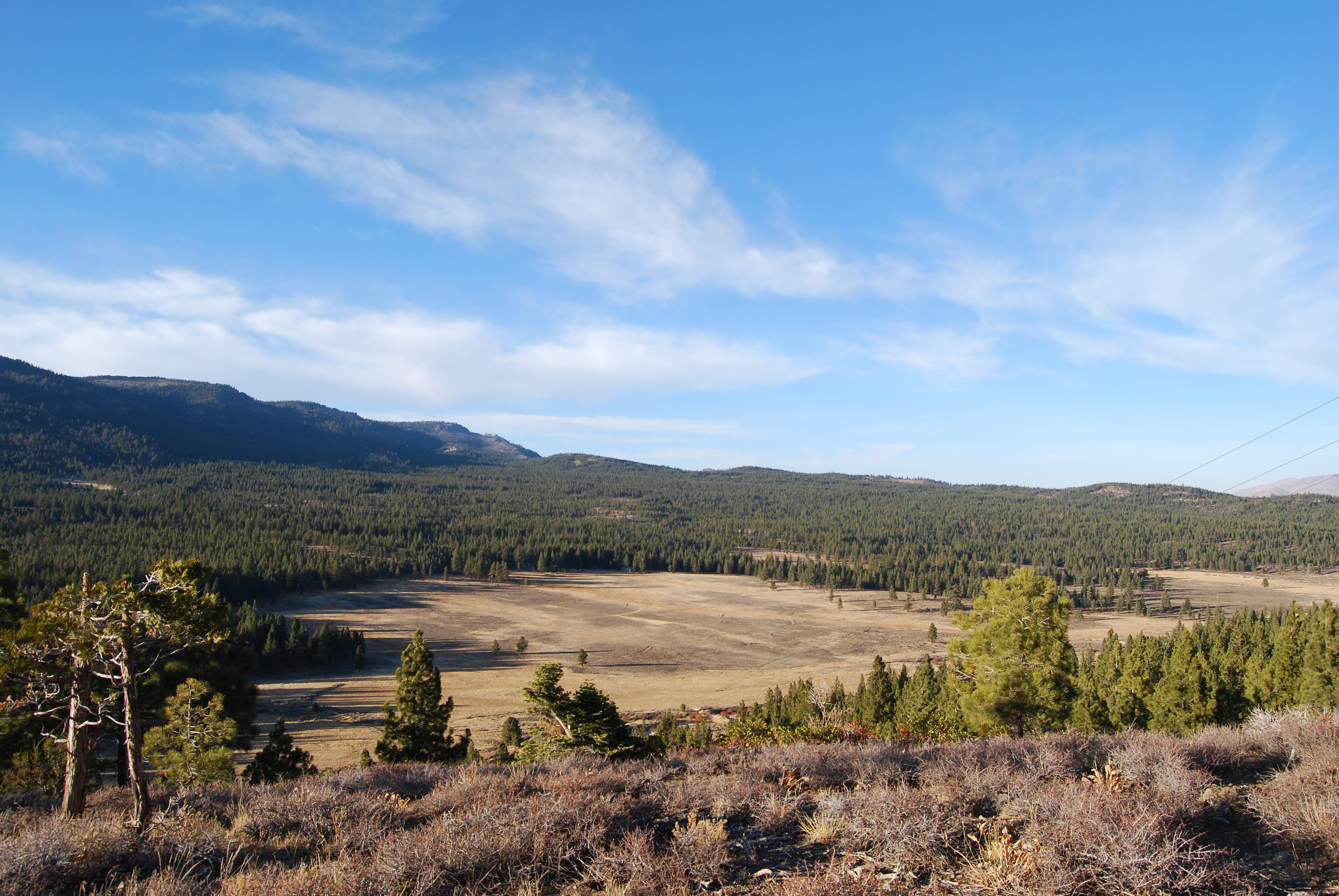 Dog Valley, approximately 12 miles west of Reno, Nevada